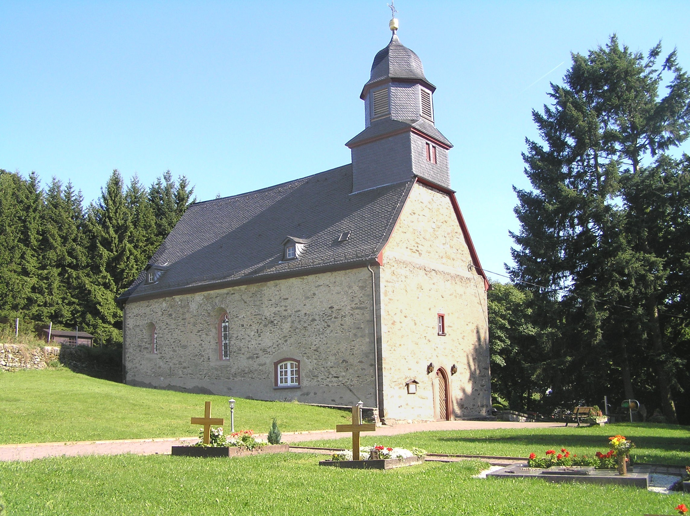 Laurentius Church, Arnoldshain, Schmitten, Germany